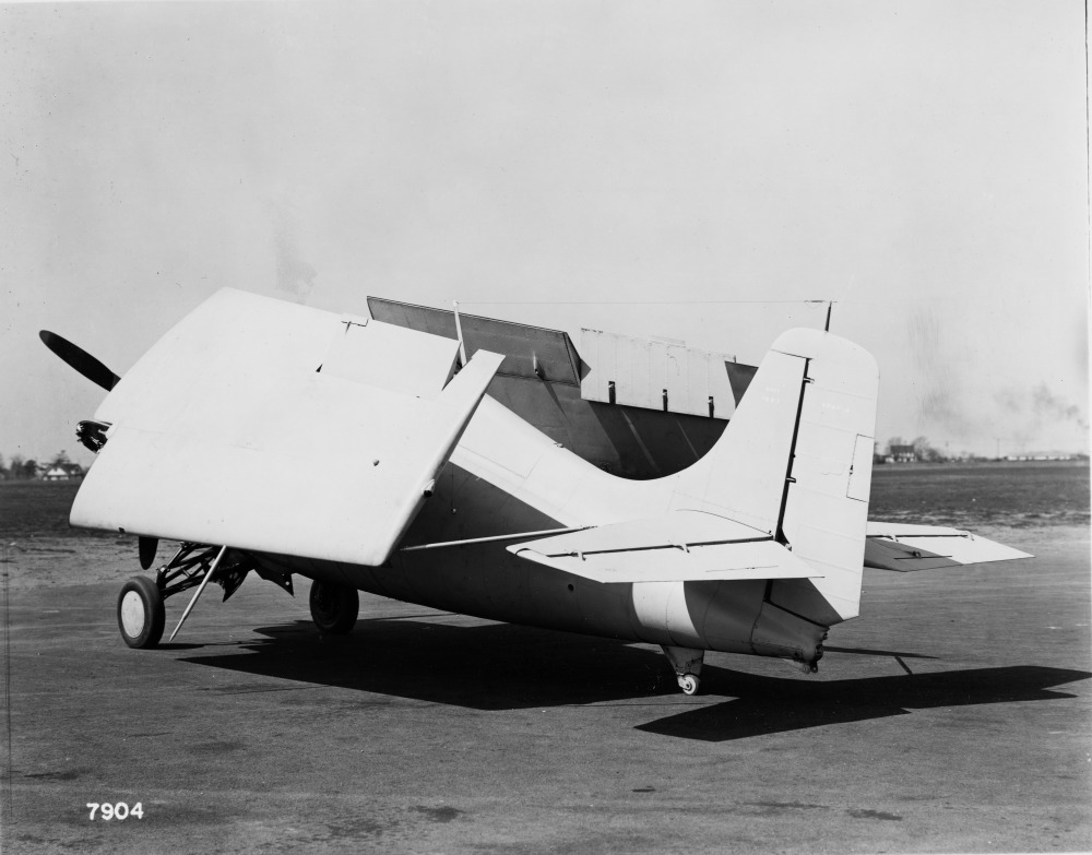 PictionID:42766617 - Title:Grumman XF4F-4 1897 mfr 7904 [GHC via RJF] - Catalog:17_000150 - Filename:17_000150.tif - - --------Image from the René Francillon Photo Archive. Having had his interest in aviation sparked by being at the receiving end of B-24s bombing occupied France when he was 7-yr old, René Francillon turned aviation into both his vocation and avocation. Most of his professional career was in the United States, working for major aircraft manufacturers and airport planning/design companies. All along, he kept developing a second career as an aviation historian, an activity that led him to author more than 50 books and 400 articles published in the United States, the United Kingdom, France, and elsewhere. Far from “hanging on his spurs,” he plans to remain active as an author well into his eighties.-------PLEASE TAG this image with any information you know about it, so that we can permanently store this data with the original image file in our Digital Asset Management System.--------------SOURCE INSTITUTION: San Diego Air and Space Museum Archive